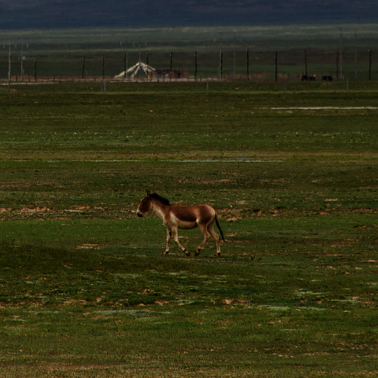 A solitary kiang near the sources (lake) of the Yellow River, Qinghai